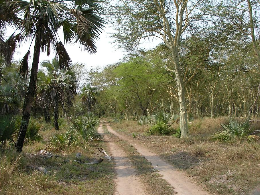 vegetation in Gorongosa National Park, Mozambique.